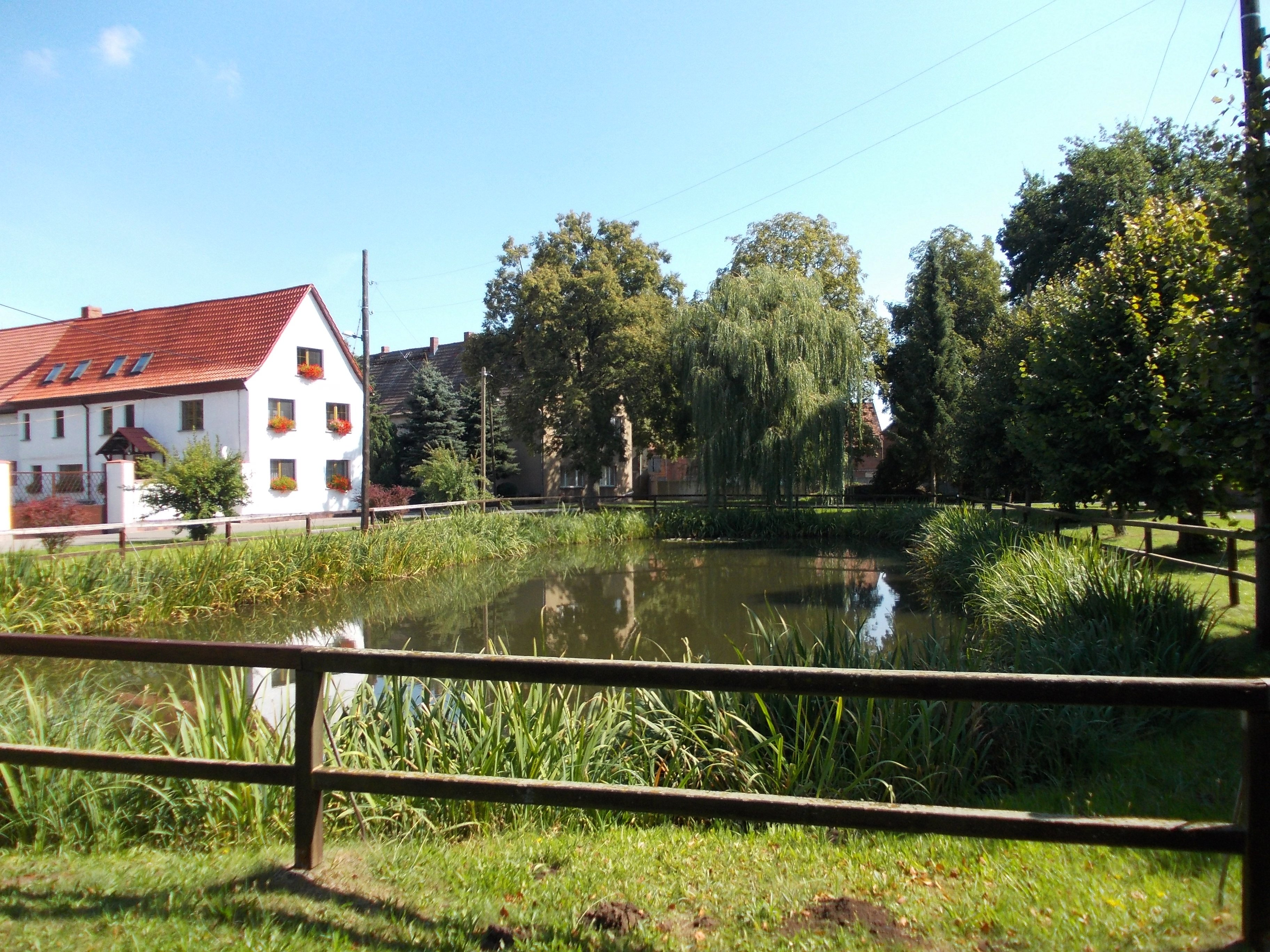 Pond in Aue (Molauer Land, district of Burgenlandkreis, Saxony-Anhalt)